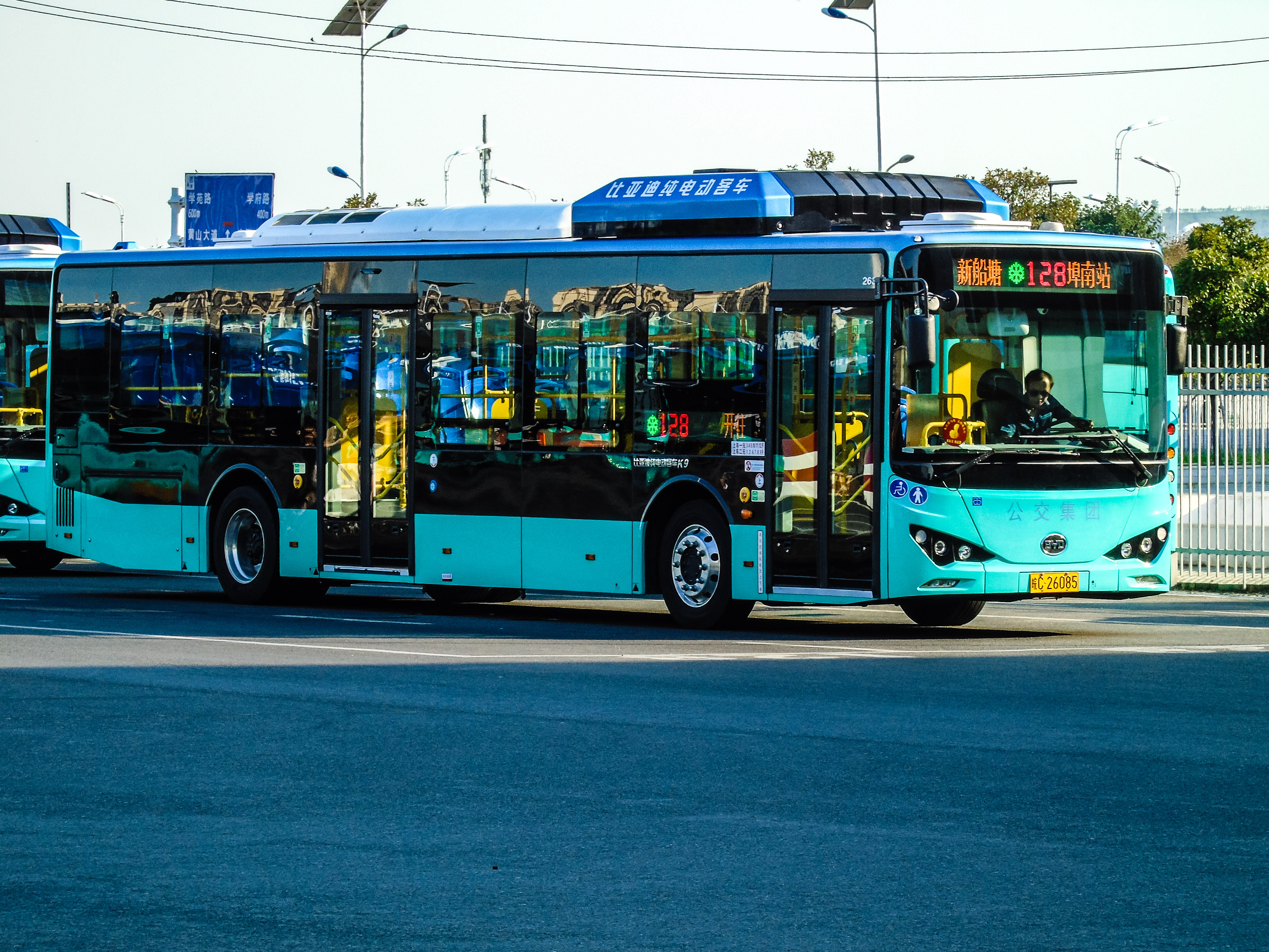 Bengbu Bus No.128 at Bengbunan Railway Station 2